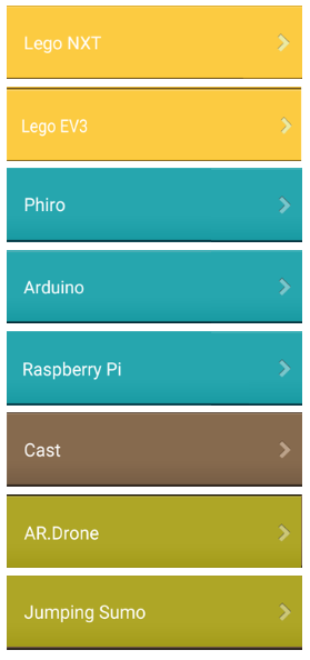 Extensions of Pocket Code